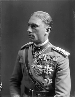 Prince Filiberto of Savoia-Genova, Duke of Pistoia, later fourth Duke of Genoa.